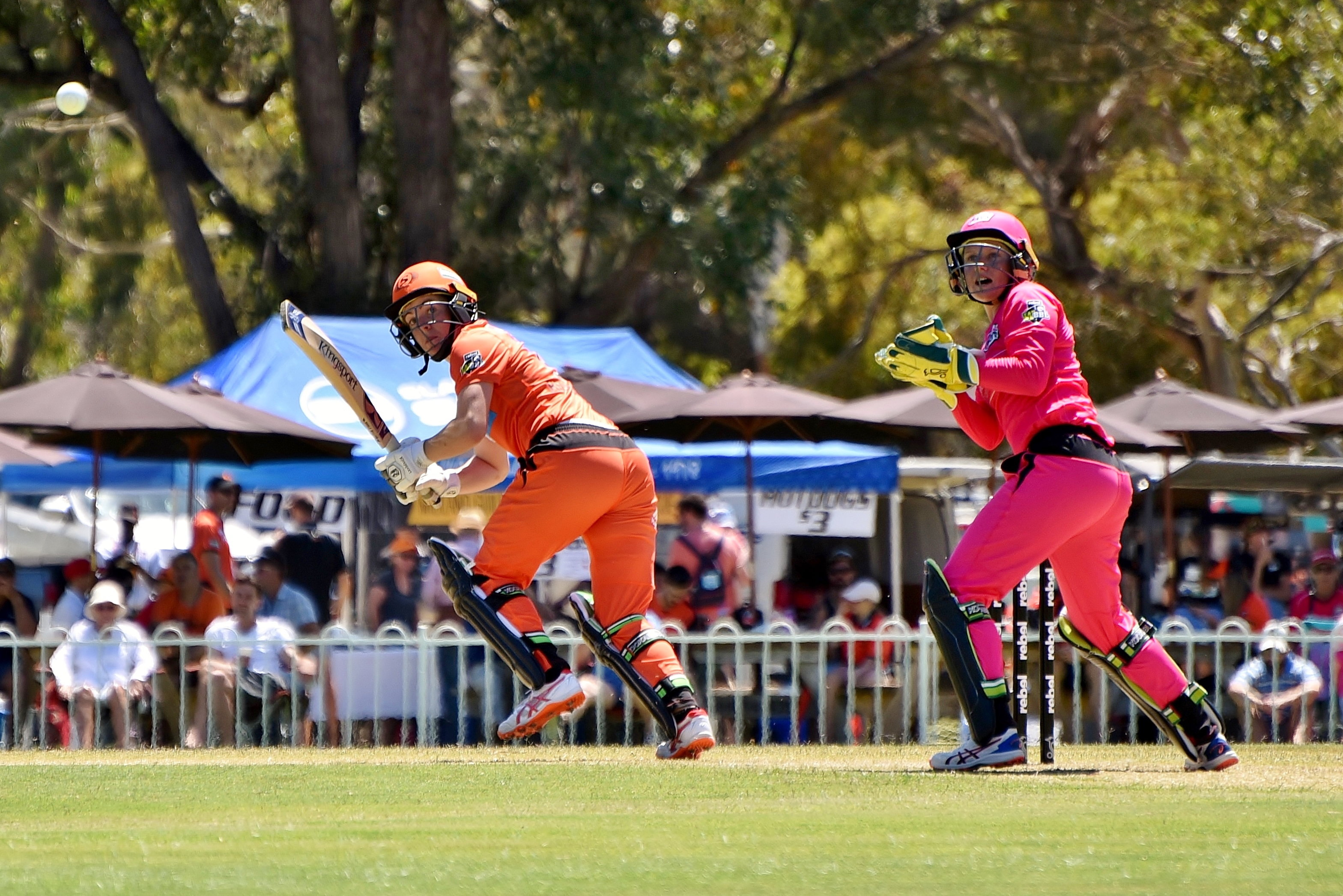 Perth Scorchers batter Georgia Redmayne batting against the Sydney Sixers, in a WBBL match at Lilac Hill Park in Perth. The (other) wicket-keeper is Alyssa Healy